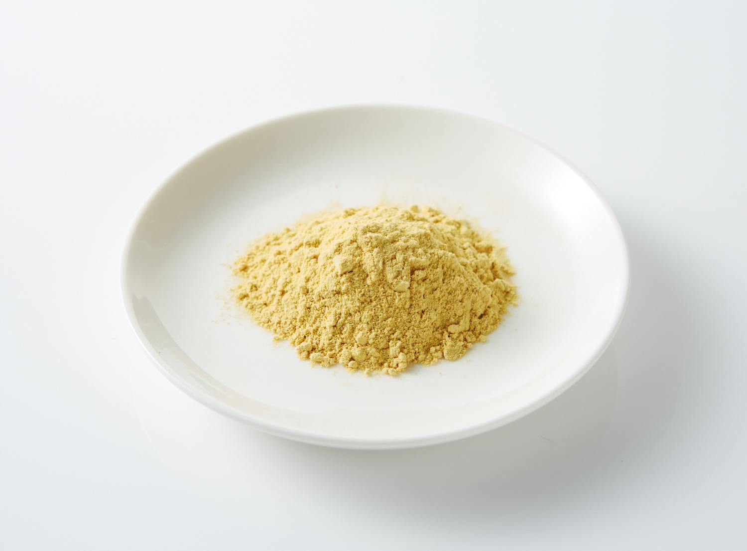 songhwagaru (pine pollen)